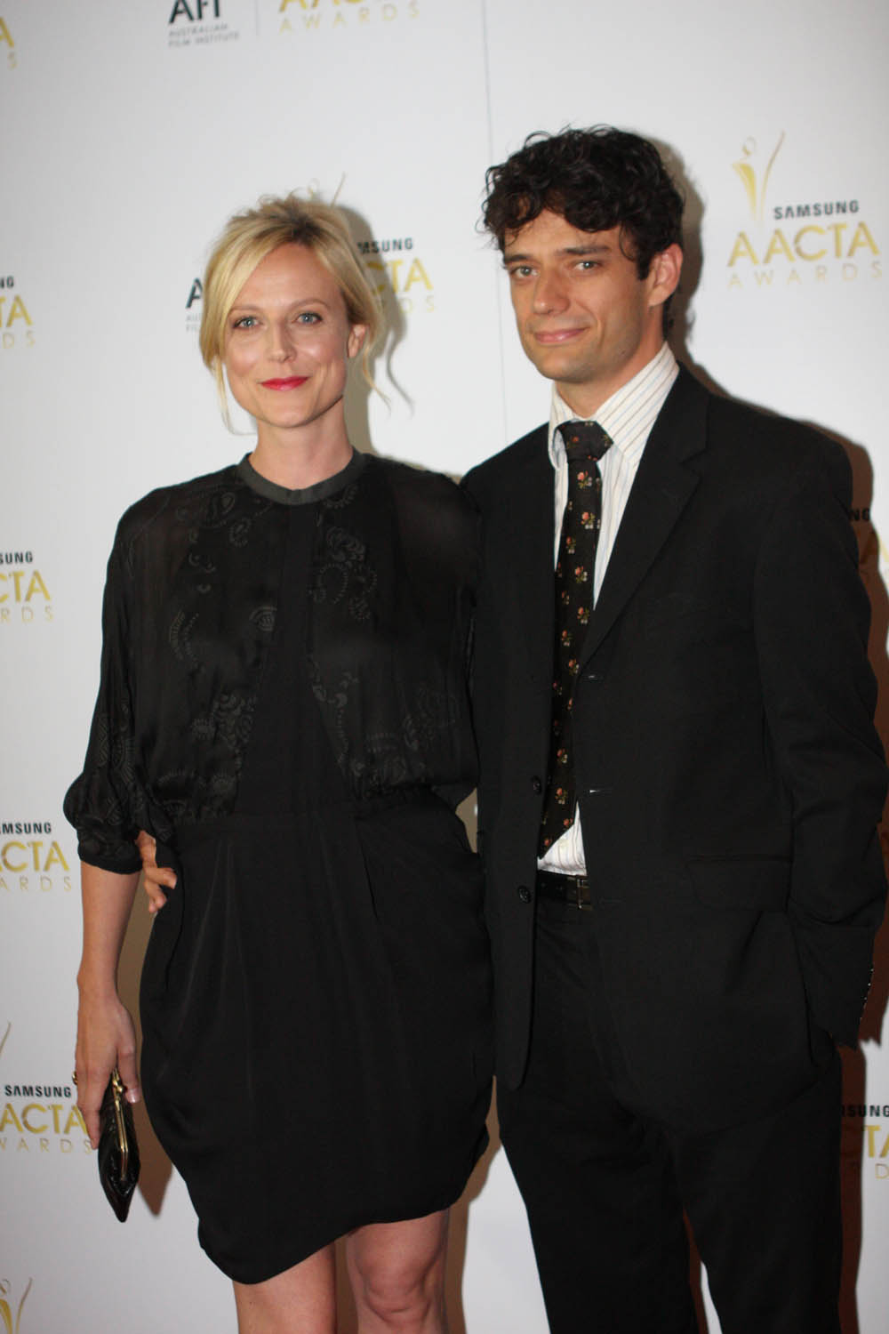 Marta Dusseldorp with Benjamin Winspear at the 2012 AACTA Awards luncheon in Sydney, Australia